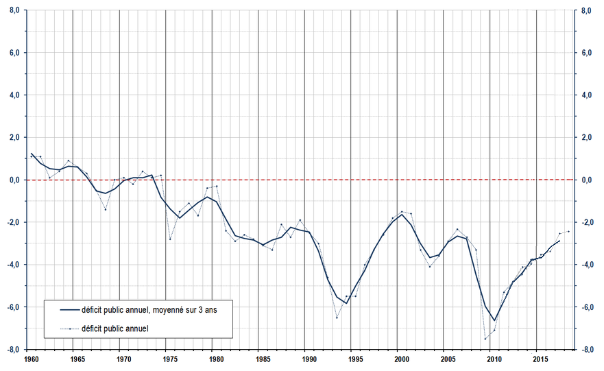 Annual public deficit of French administrations (% of GDP), 1960-2015.